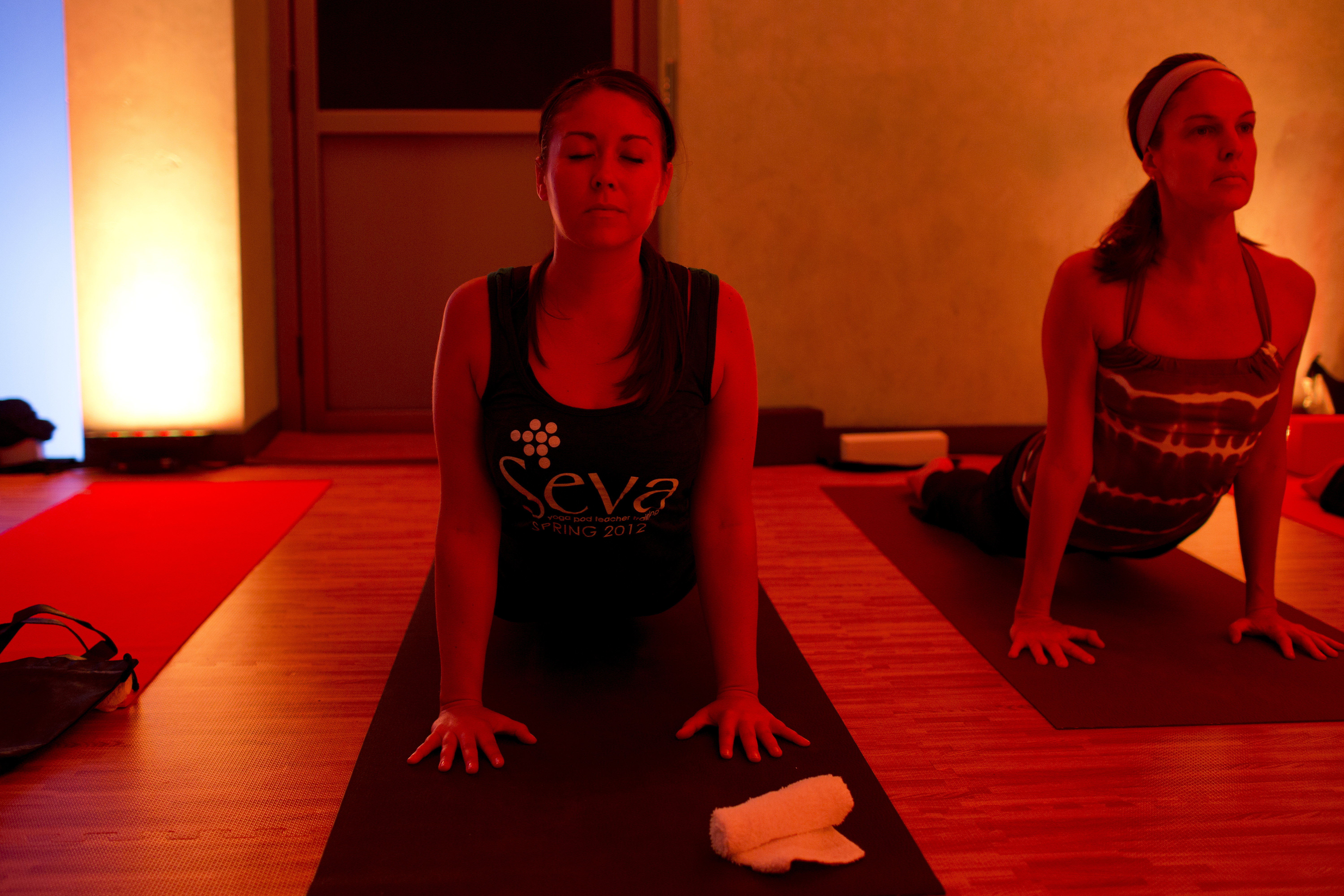 Volunteers for Oasis do "upward facing dog" on the upper floor of the spa. The spa was designed to provide a relaxing break from the chaos of the convention and offered yoga, massages, organic food and more. Photo by Mallory Benedict/PBS NewsHour